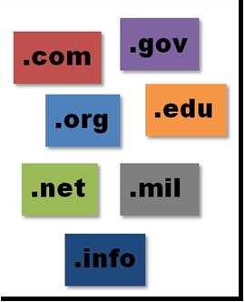 Internet domain examples